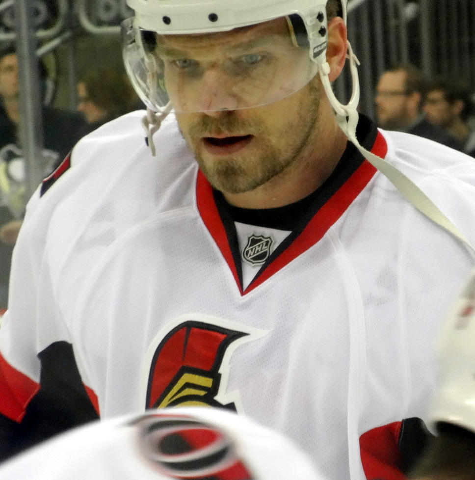 Ottawa Senators forward Milan Michalek during game five of their second round series against the Pittsburgh Penguins, May 24, 2013 at Consol Energy Center in Pittsburgh, PA.